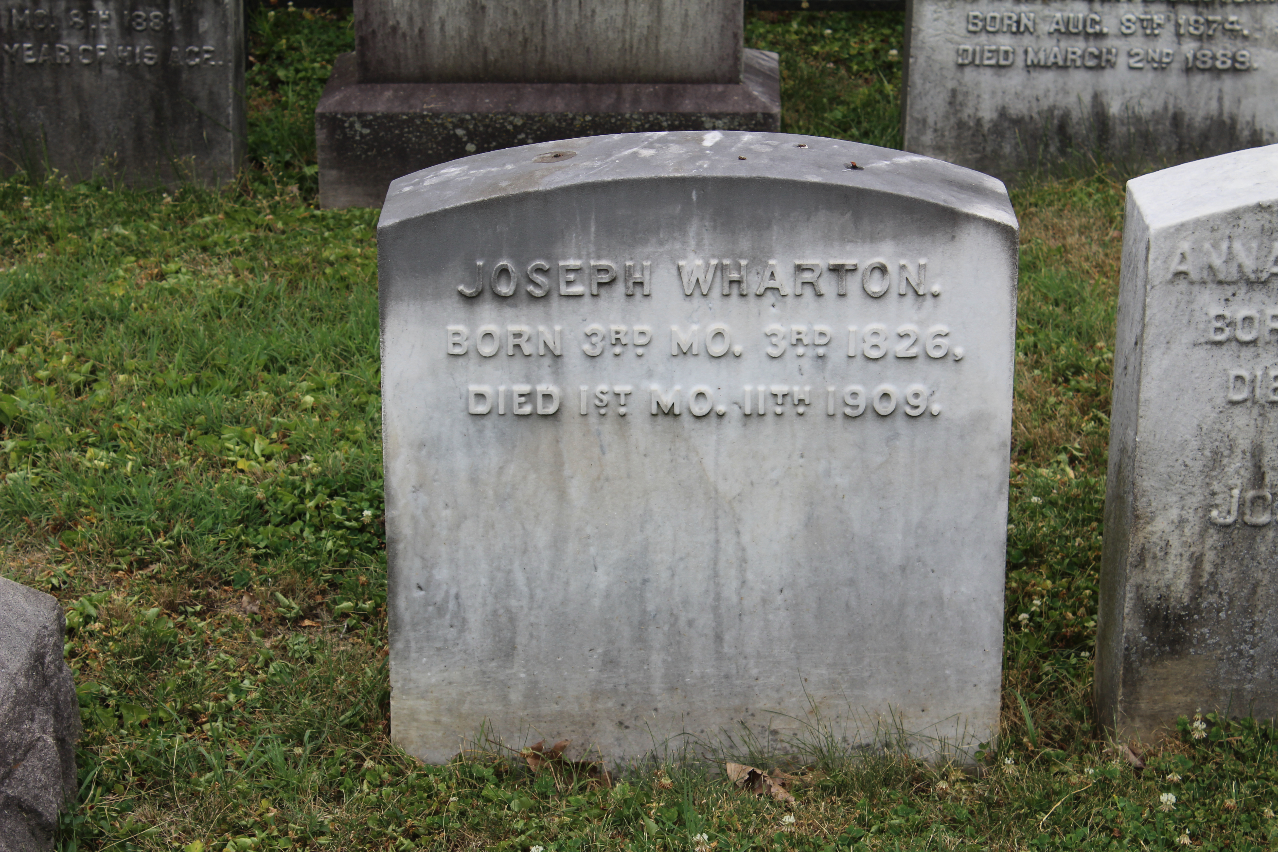 Joseph Wharton tombstone in Laurel Hill Cemetery. Photo taken July 2020.